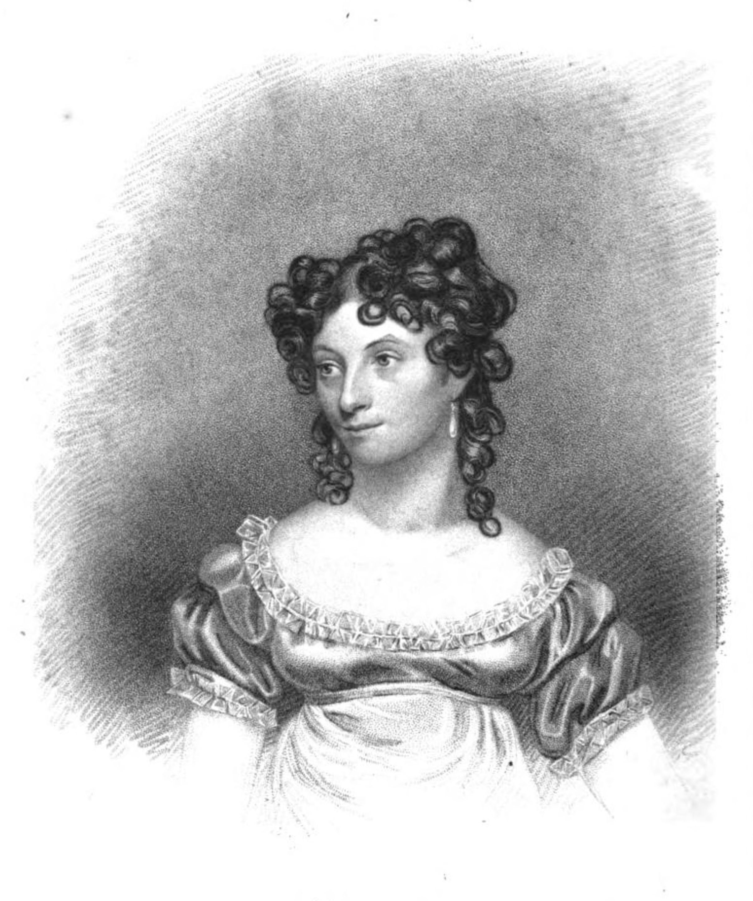 Miss Elizabeth Walker Blanchard. She was the daughter of William Blanchard, the famous London comedian. She made her London debut at the Haymarket Theatre, July 15, 1818. After her marriage to Thomas S. Hamblin she came to America with her husband, making her first appearance in New York, at the Park Theatre, as Mrs. Haller, Nov. 4, 1825, and was a favorite at the Bowery Theatre. In 1831, she returned to Europe, and soon after her return commenced a suit of divorce against her husband, which resulted in her favor. Shortly afterwards, she married a young man named Charles, whom she introduced to the New York stage, at the Richmond Hill Theatre, in 1836. She was a woman of high spirit, and her domestic griefs were sometimes brought before the public with more temper than judgment. Her last appearance in New York, was at the Astor Place Opera House, in 1848. Her first appearance in Boston was in October, 1826, at the Federal Street Theatre. She died of cholera in the city of New Orieans, May 8th, 1849.